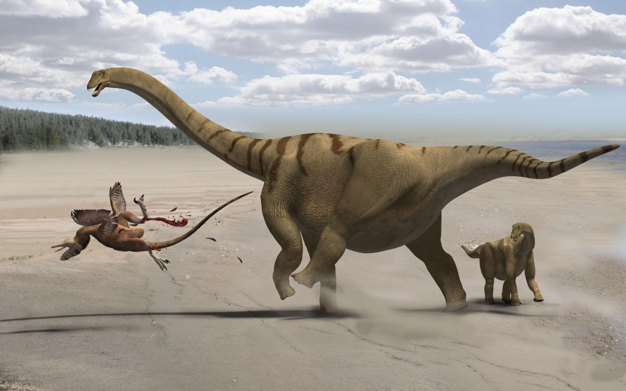 Brontomerus mcintoshi may have had a powerful kick due to large abductor muscles. Here an adult is protecting a juvenile from a Utahraptor.